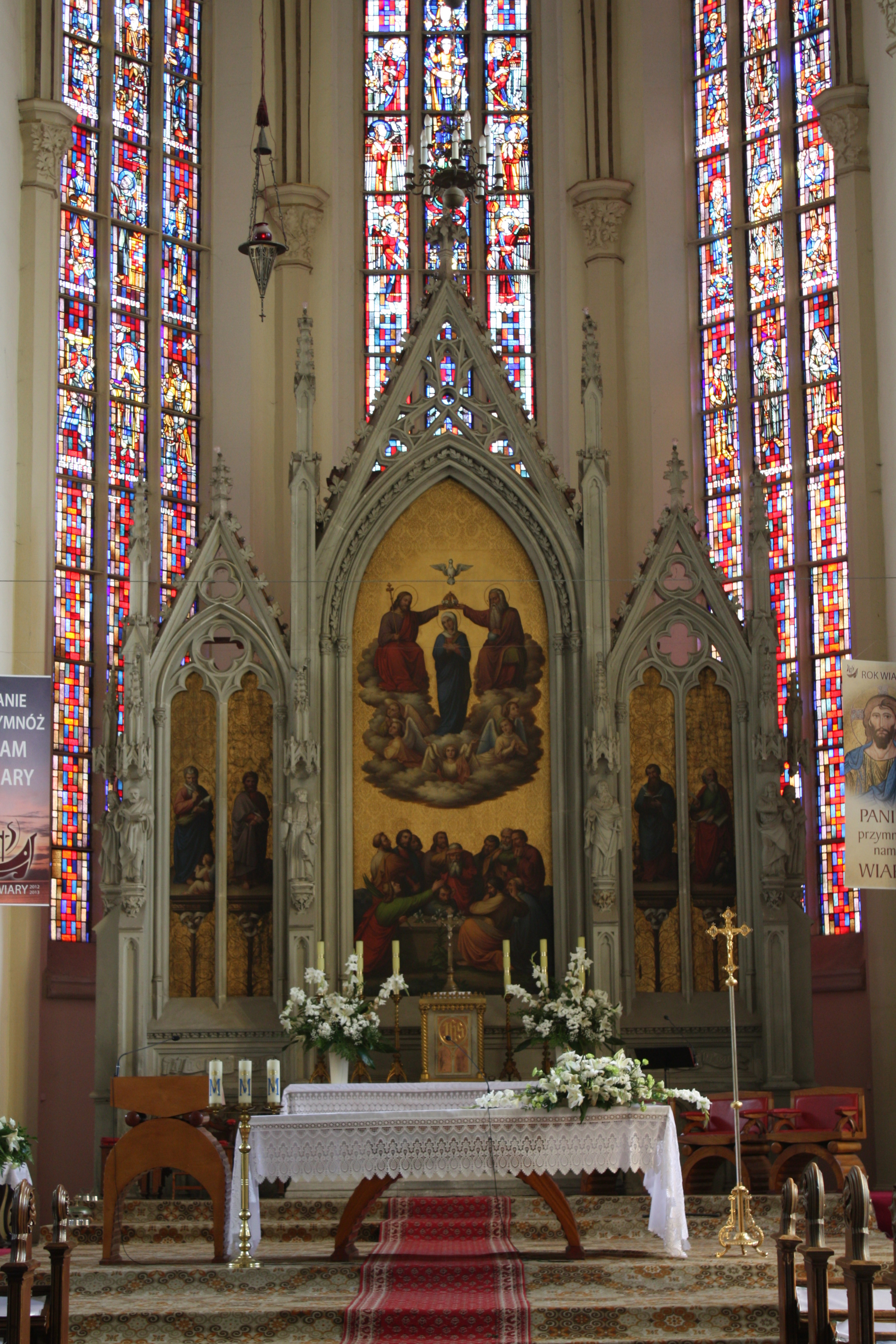 This photo of Lower Silesian Voivodeship was taken during Wikiexpedition 2013 set up by Wikimedia Polska Association. You can see all photographs in category Wikiekspedycja 2013. English | Polski | +/−